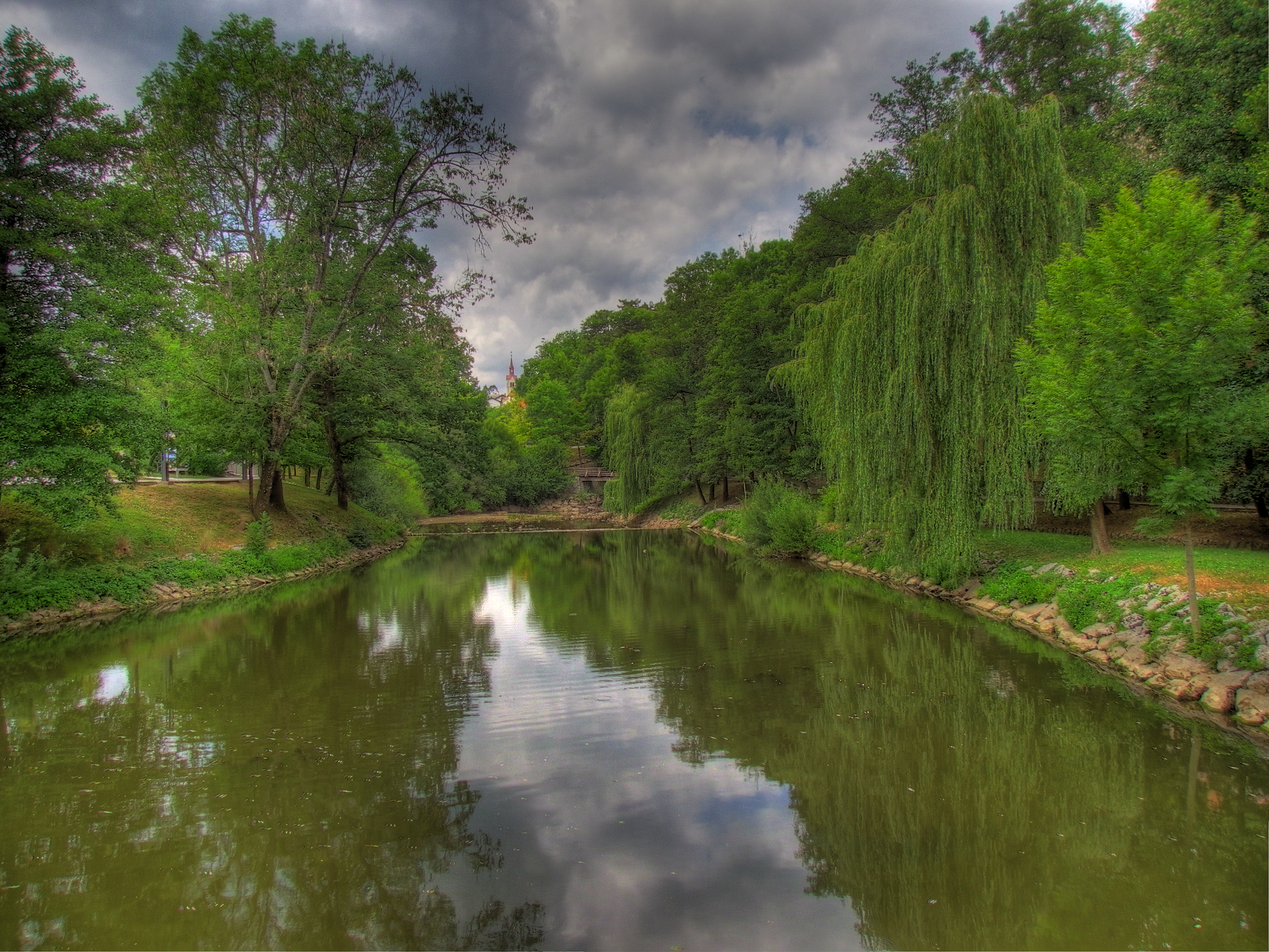 Pivka river near the entrance. HDR.